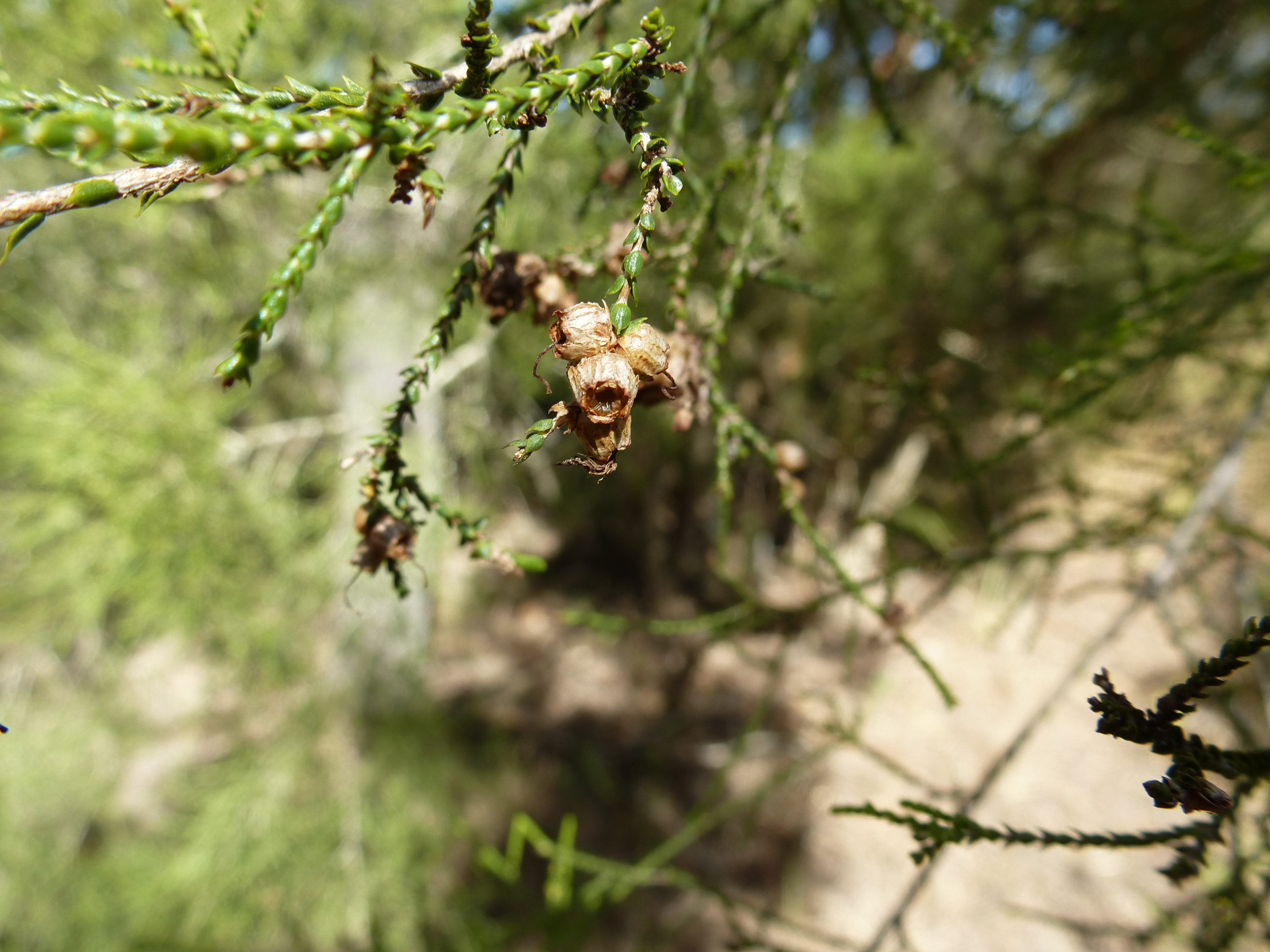 Melaleuca monantha foliage and fruit at Mareeba wetlands